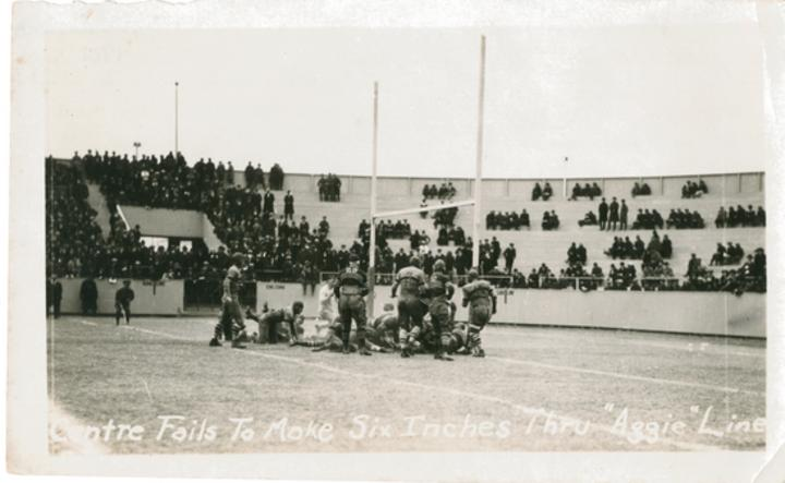 Centre College fails to score a touchdown against the Texas Aggies in the 1922 Dixie Classic